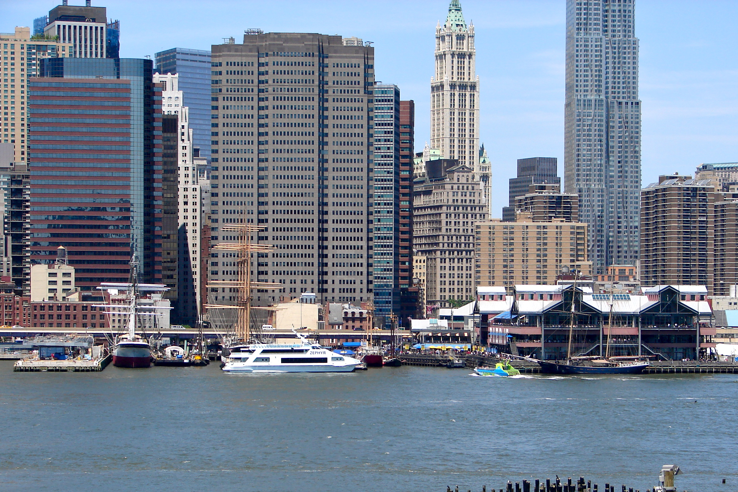 Piers 15, 16, and 17 (South Street Seaport) in New York City on the East River. This is where the John A. Lynch (ferryboat), on the NRHP since September 7, 1984 was once docked (Pier 15, East River, Manhattan, New York)